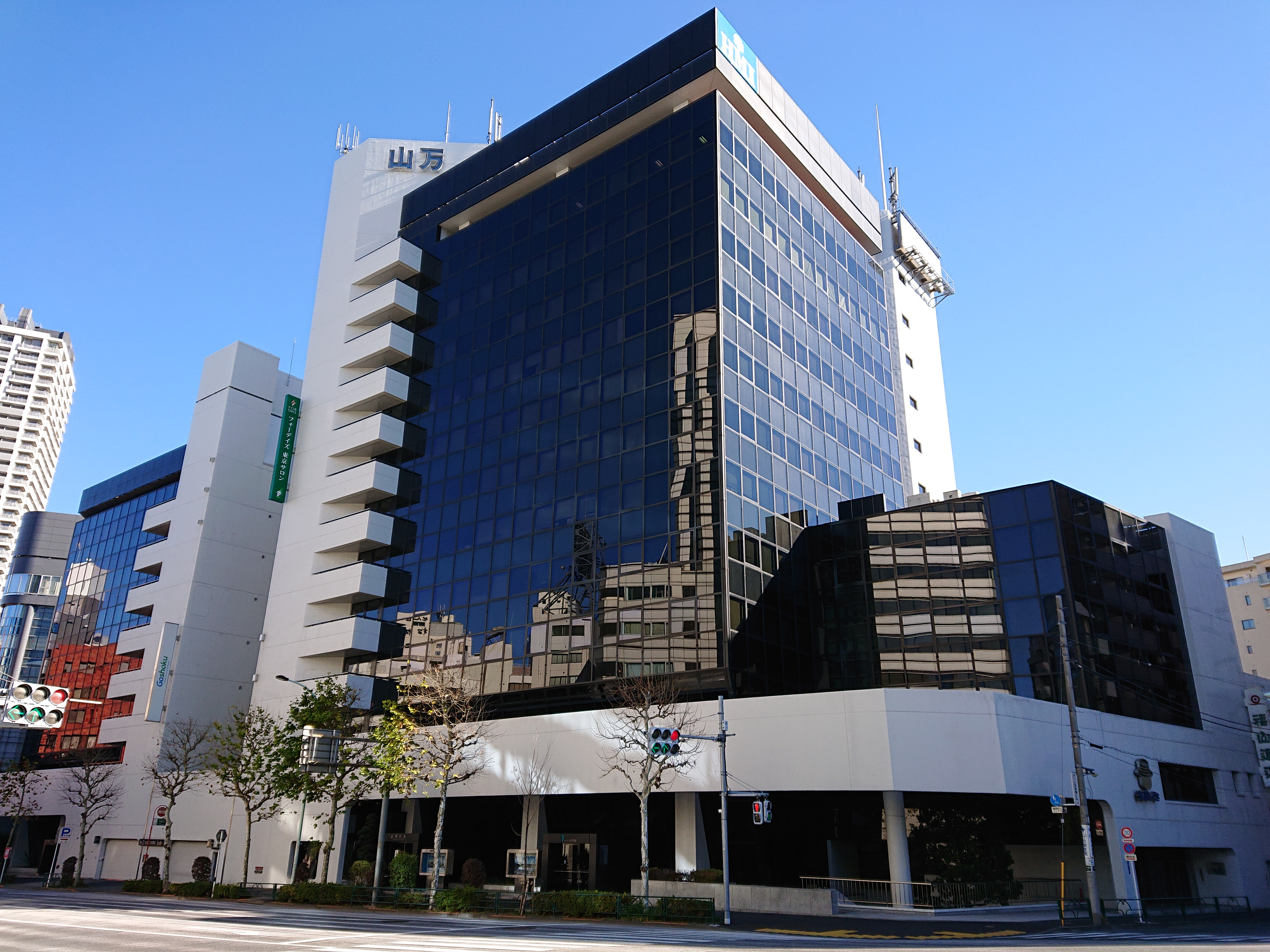 Yamaman Building, located at 6-1 Nihonbashi-Koamicho, Chuo, Tokyo, Japan